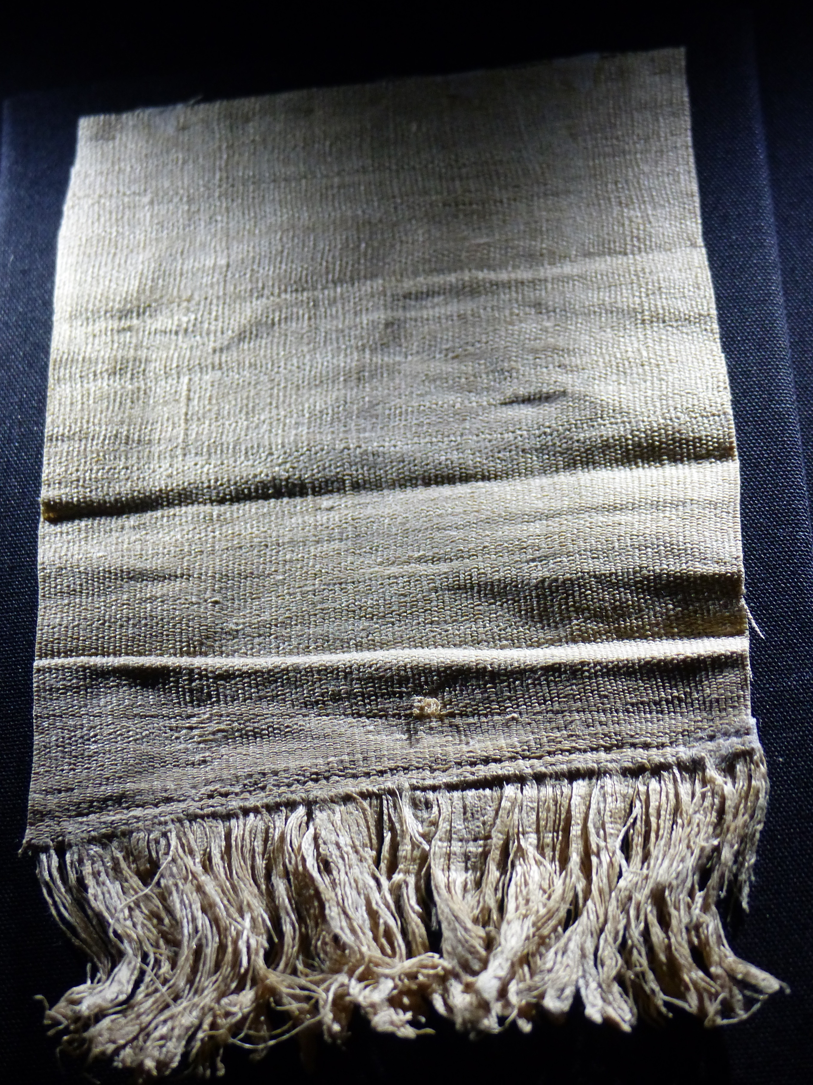 Rosenheim ( Upper Bavaria ). Lokschuppen exhibition centre - "Pharao" exhibition ( 2017 ): Piece of linen with fringes, New Kingdom ( 1500 - 1100 BC )